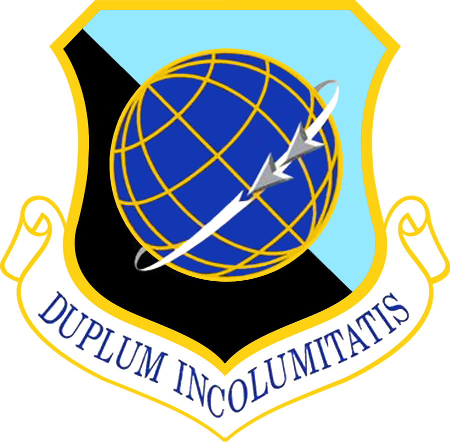 Emblem of the 92d Air Refueling Wing of the United States Air Force; Approved on 7 Jul 1994; replaced emblems approved on 21 Nov 1957 (K 3321)and 9 Jun 1952 (24964 A.C.). Motto: DUPLUM INCOLUMITATIS (Twofold Security) Approved on 21 Nov 1957.